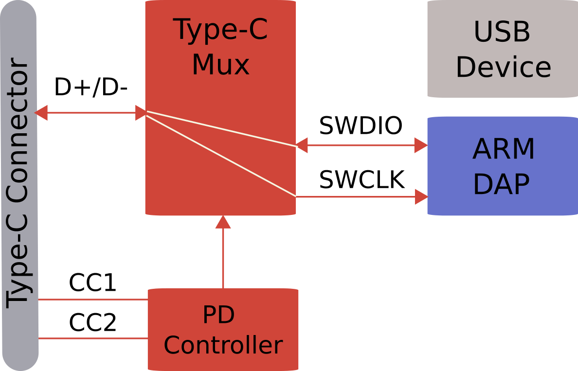 The diagram shows how the USB Type-C multiplexer can switch between the interface´s native function and the debug function